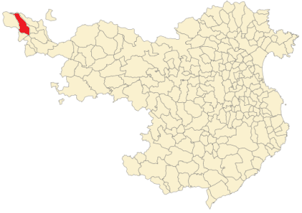 Ger